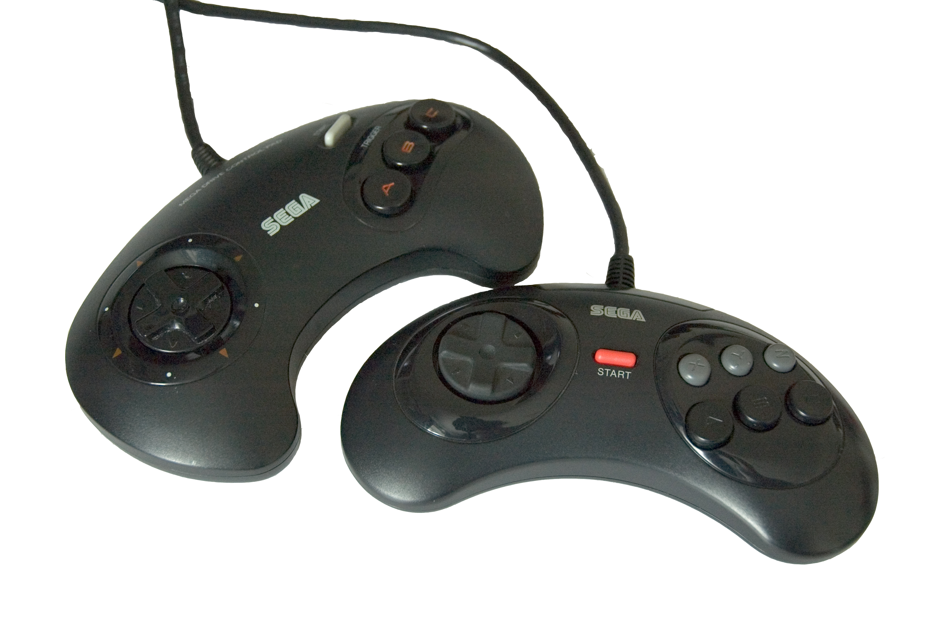 Sega Genesis/Mega Drive controllers - original at top, later six-button version at bottom